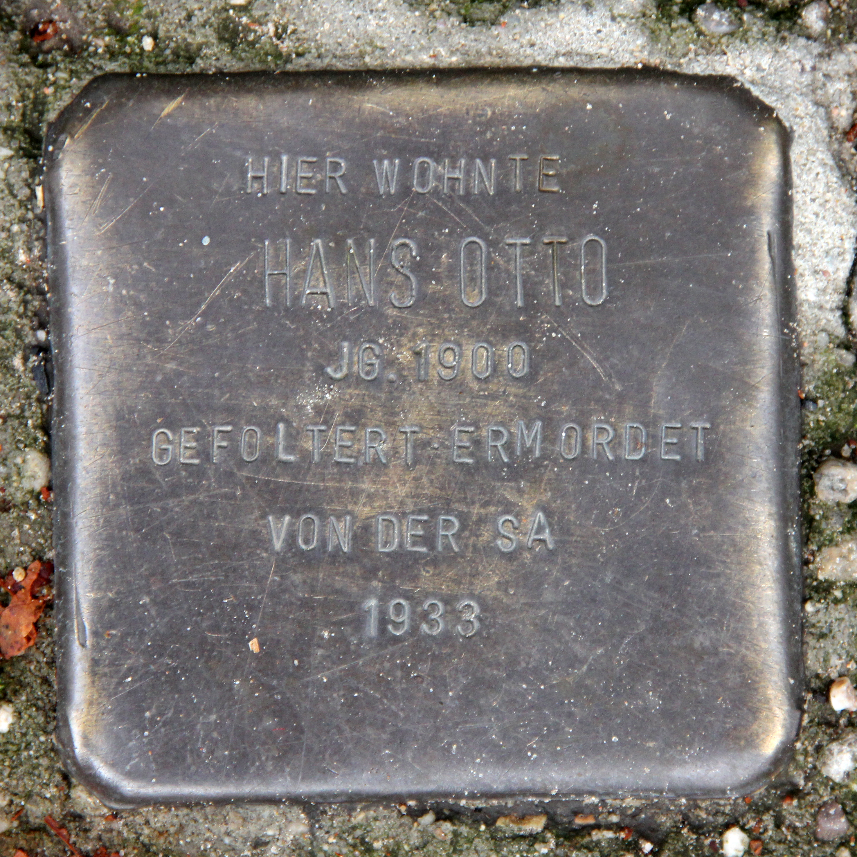 "Stolperstein" (stumbling block), Hans Otto, Hansa Ufer 5, Berlin-Moabit, Germany